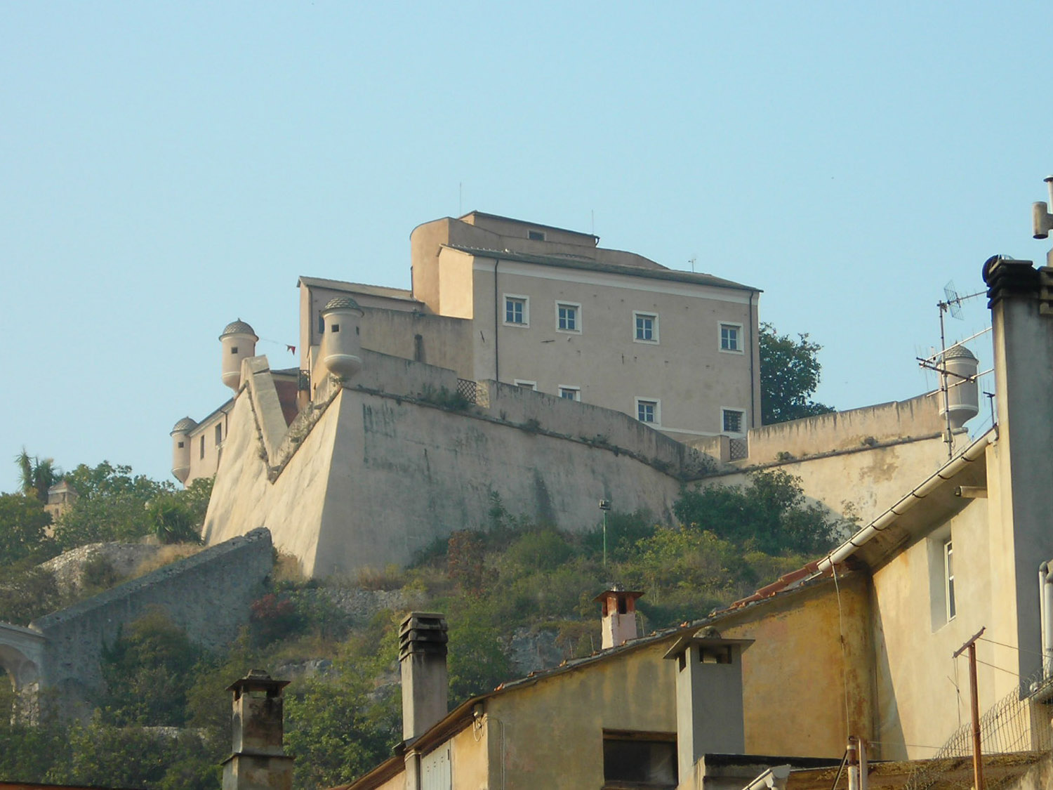 San Giovanni Castle in Finale Ligure